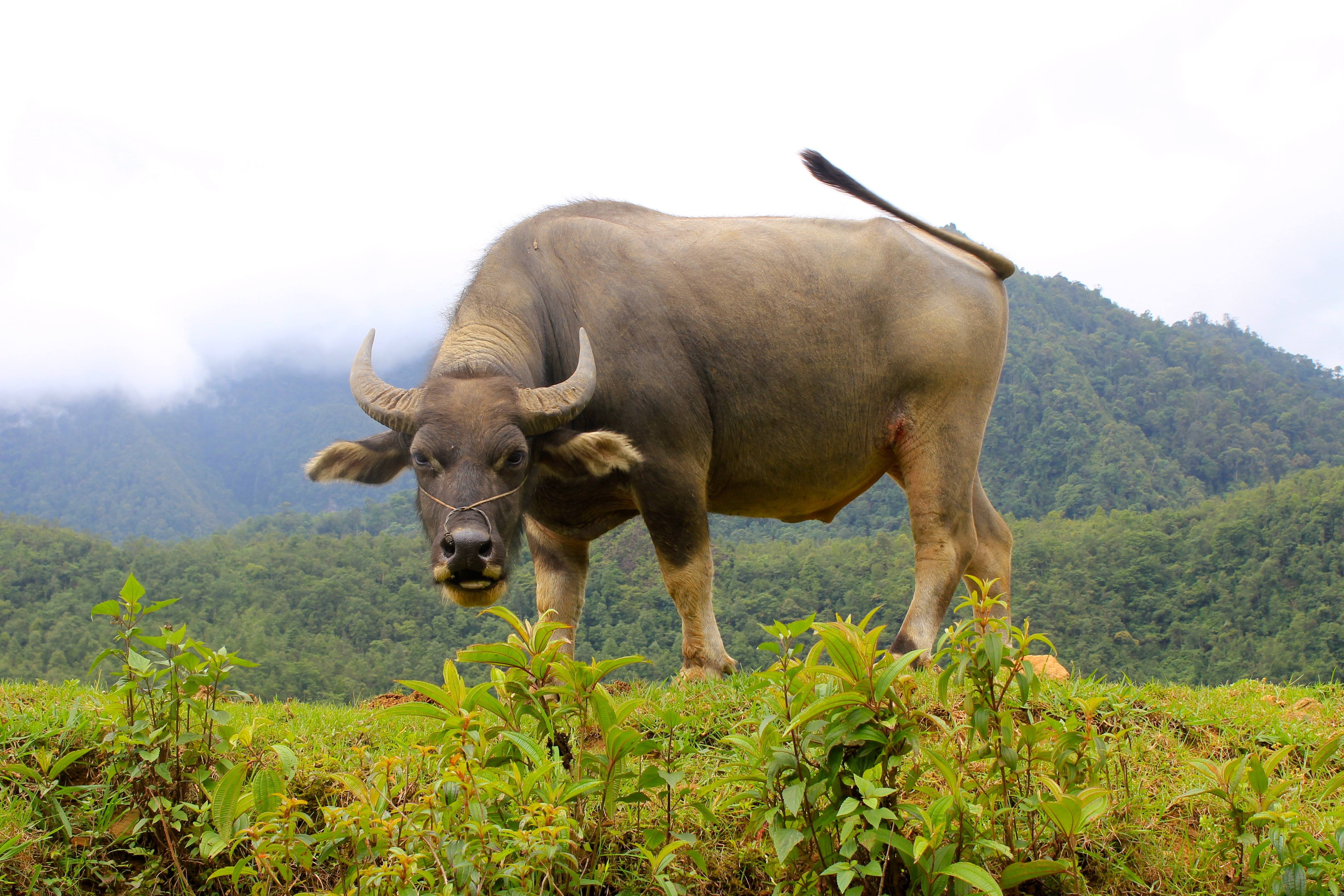 water buffalo near Sapa